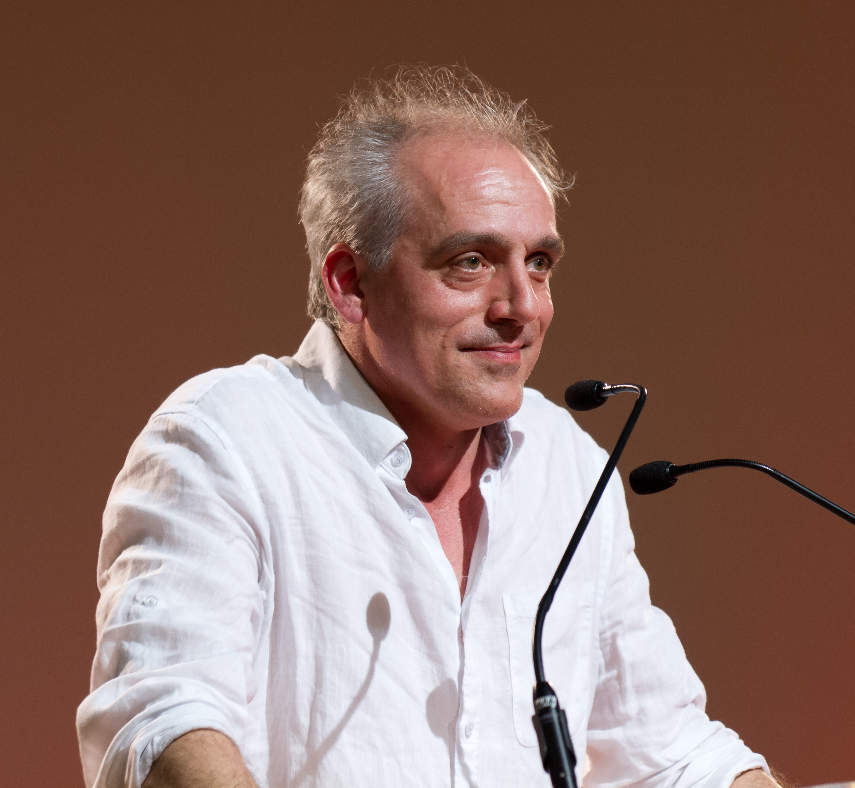 Philippe Poutou during his meeting in Toulouse on April, 17th 2012 for the 2012 presidential election.